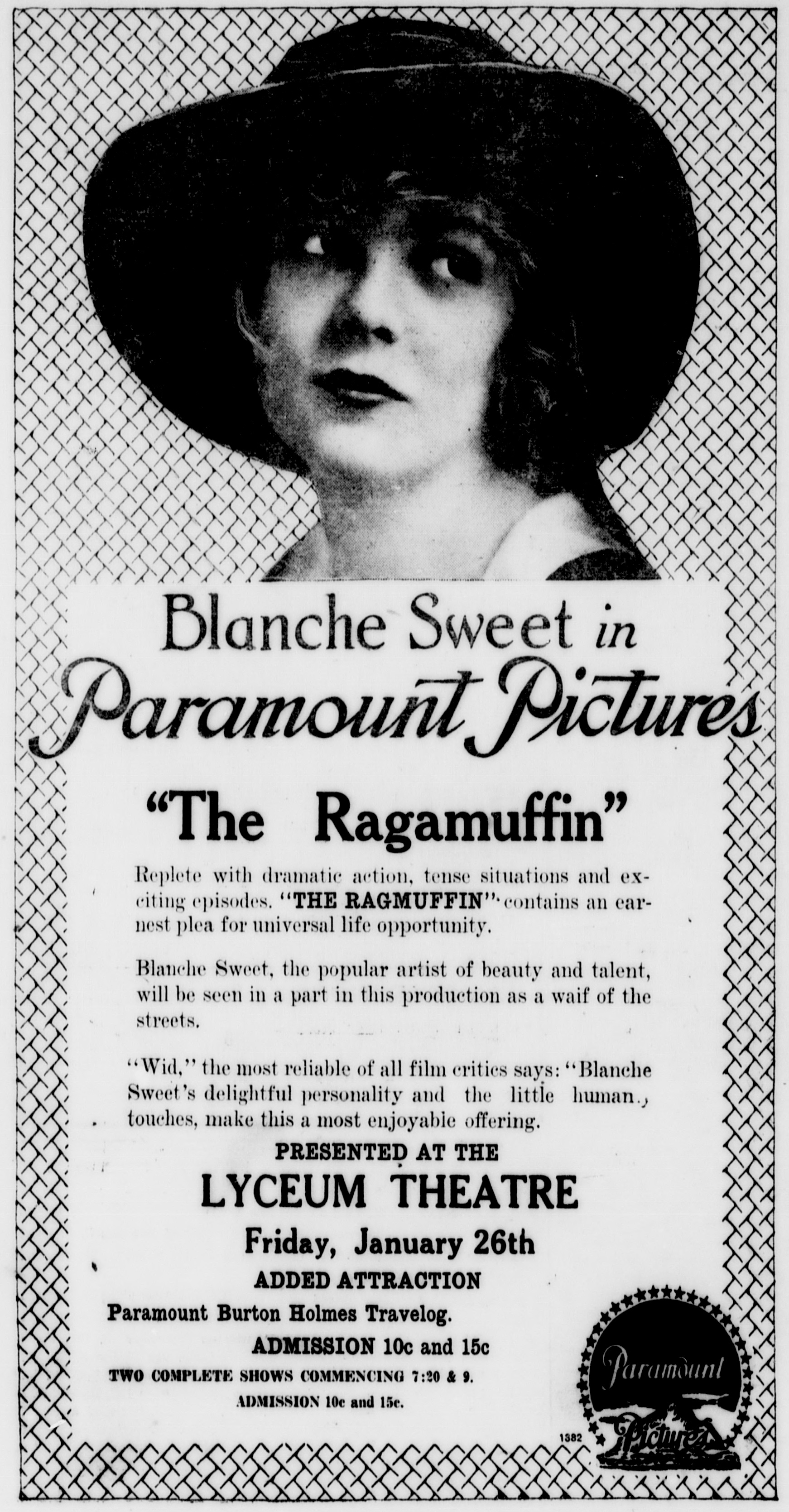 The Ragamuffin is a 1916 American silent drama film directed and written by William C. deMille. This is a newspaper advert for the film.